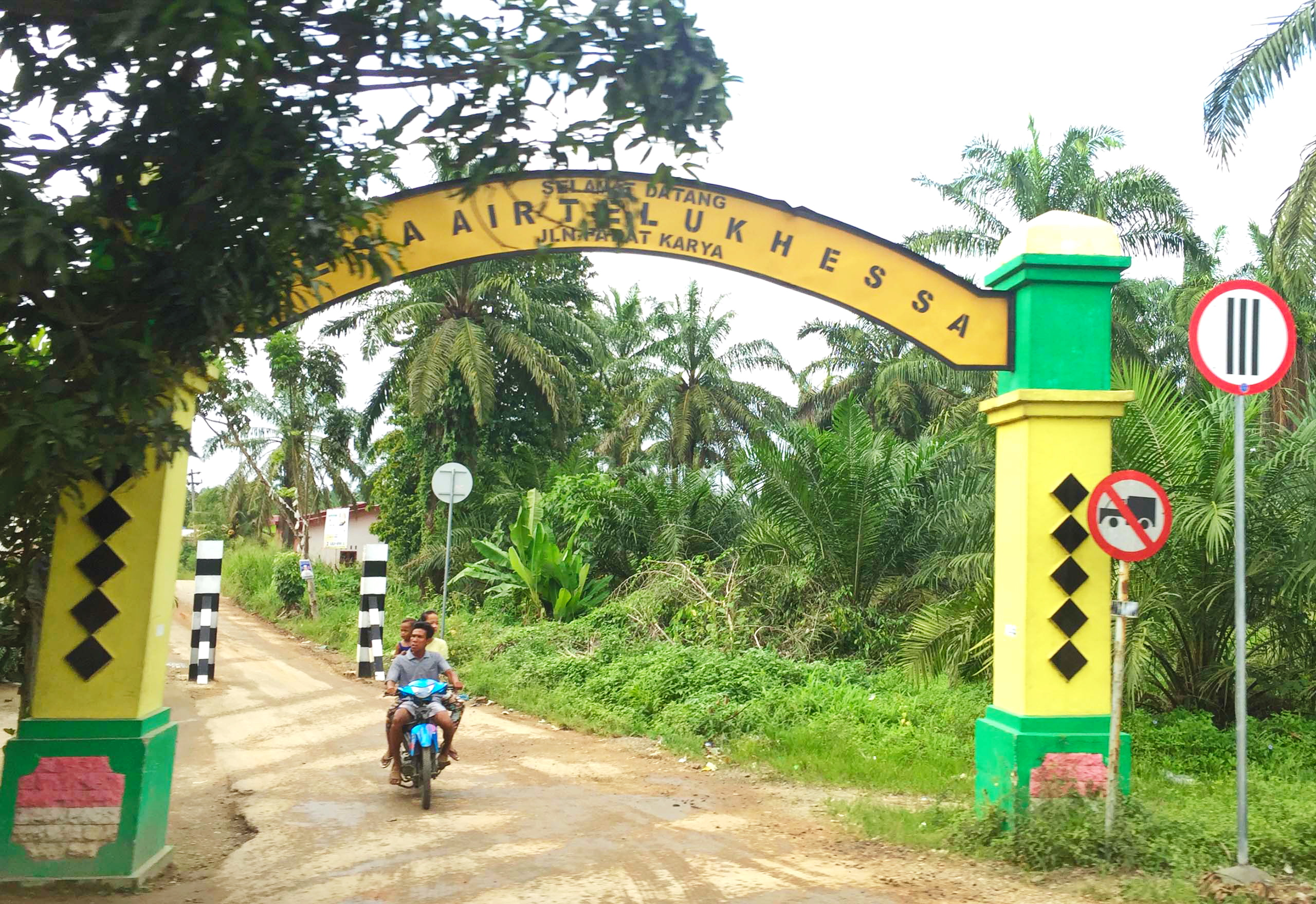 welcome gate to Air Teluk Hessa, Air Batu, Asahan